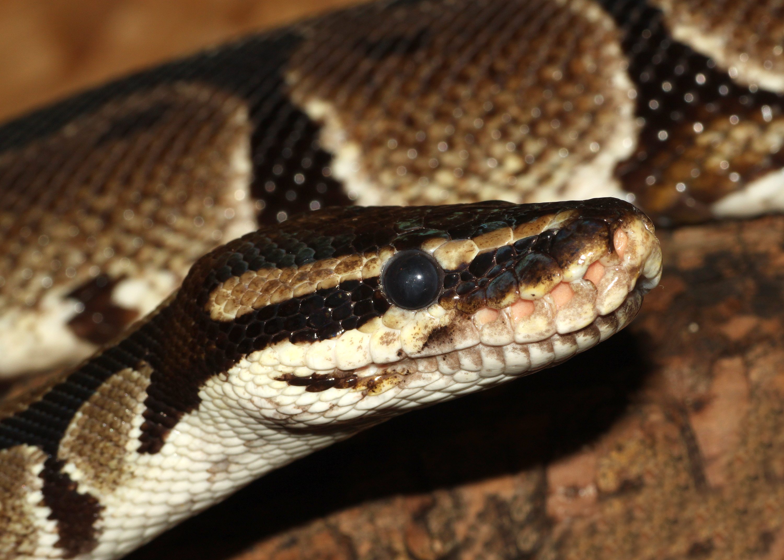 Royal Python or Ball python, Python regius, Family: Boidae, Location: Germany, Neu-Ulm, Reptilienzoo